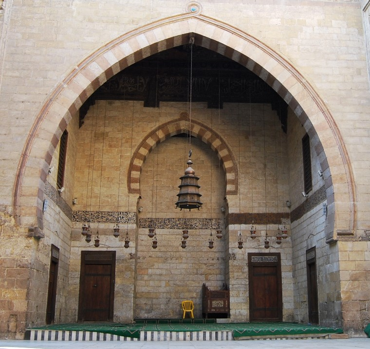 One of the Arches of the Sultan Ashref Barsbay mosque in its Crucifix shaped hall.